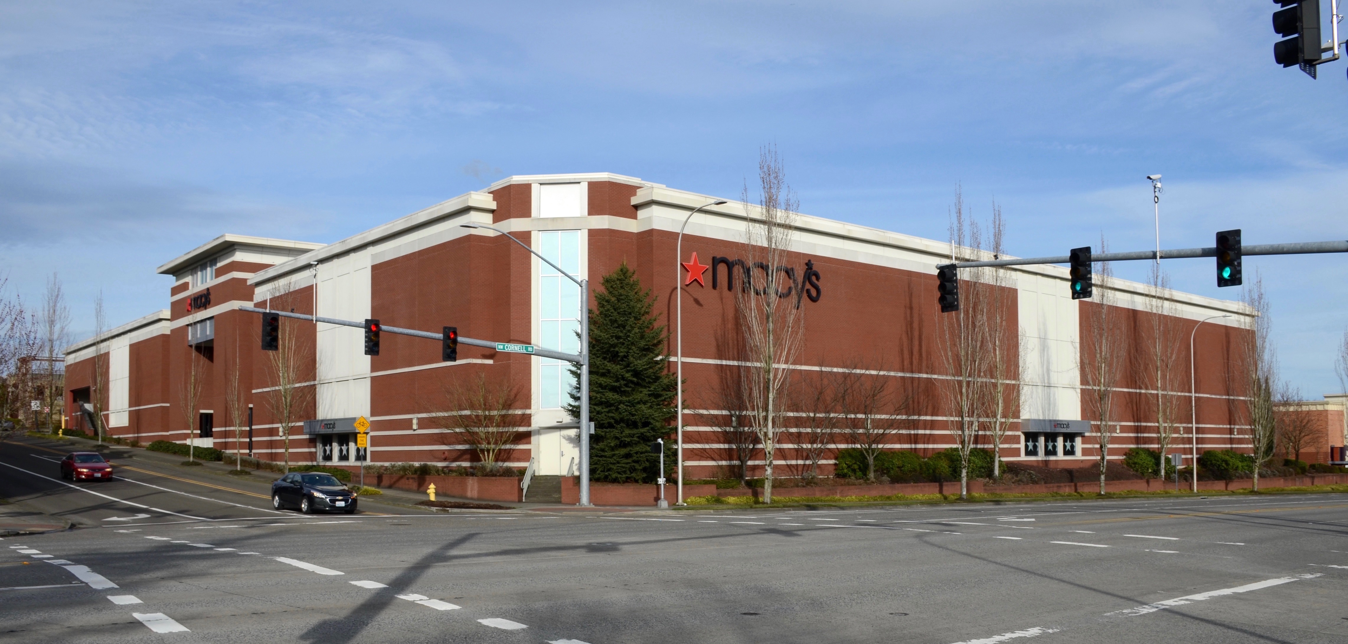 The Macy's department store at The Streets of Tanasbourne mall in Hillsboro, Oregon, viewed from the southwest. Originally a Meier & Frank store, it was rebranded as Macy's in 2006.